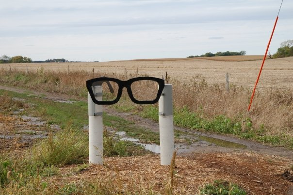 A roadside sign in the form of Buddy Holly's glasses, located close to the location where he was killed in a plane crash on February 3, 1959 - The Day the Music Died